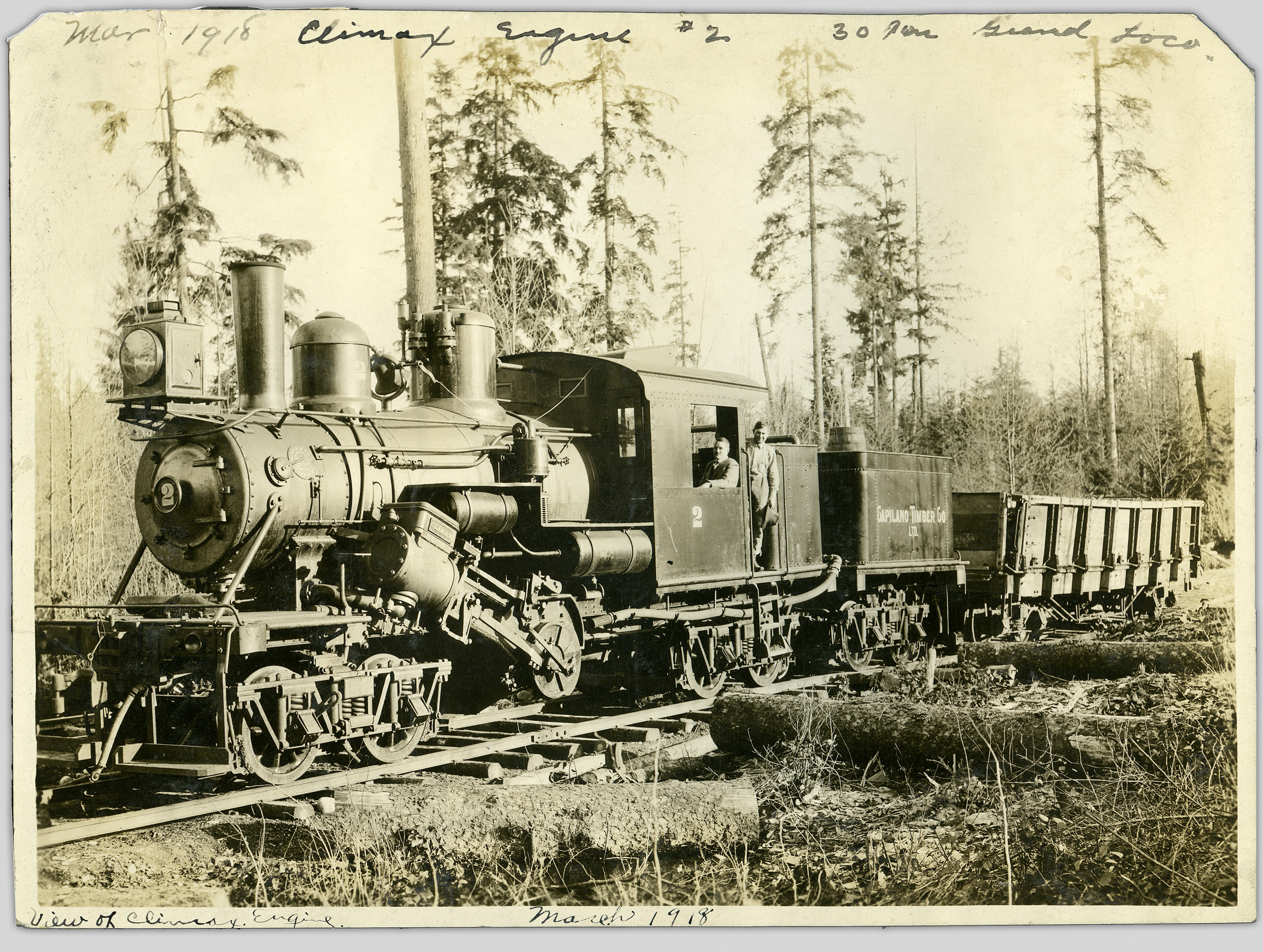 Climax engine #2, 30 ton Grand Locomotive. Note: It is doubtful, that this was a 30 ton engine, look smore like a 70 ton engine how it is listed here as shop number #1487.